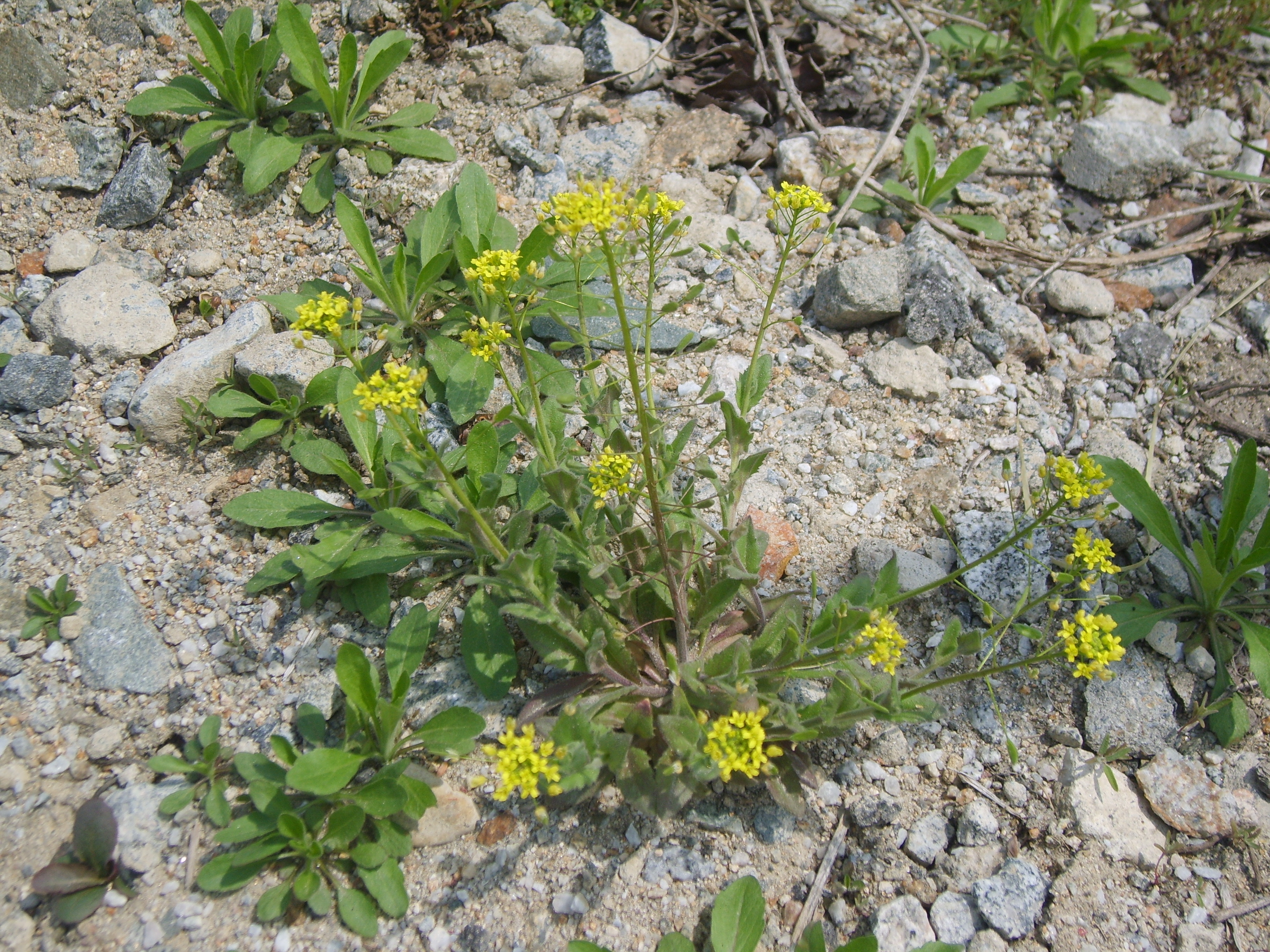 Draba nemorosa in Bupyung, Korea